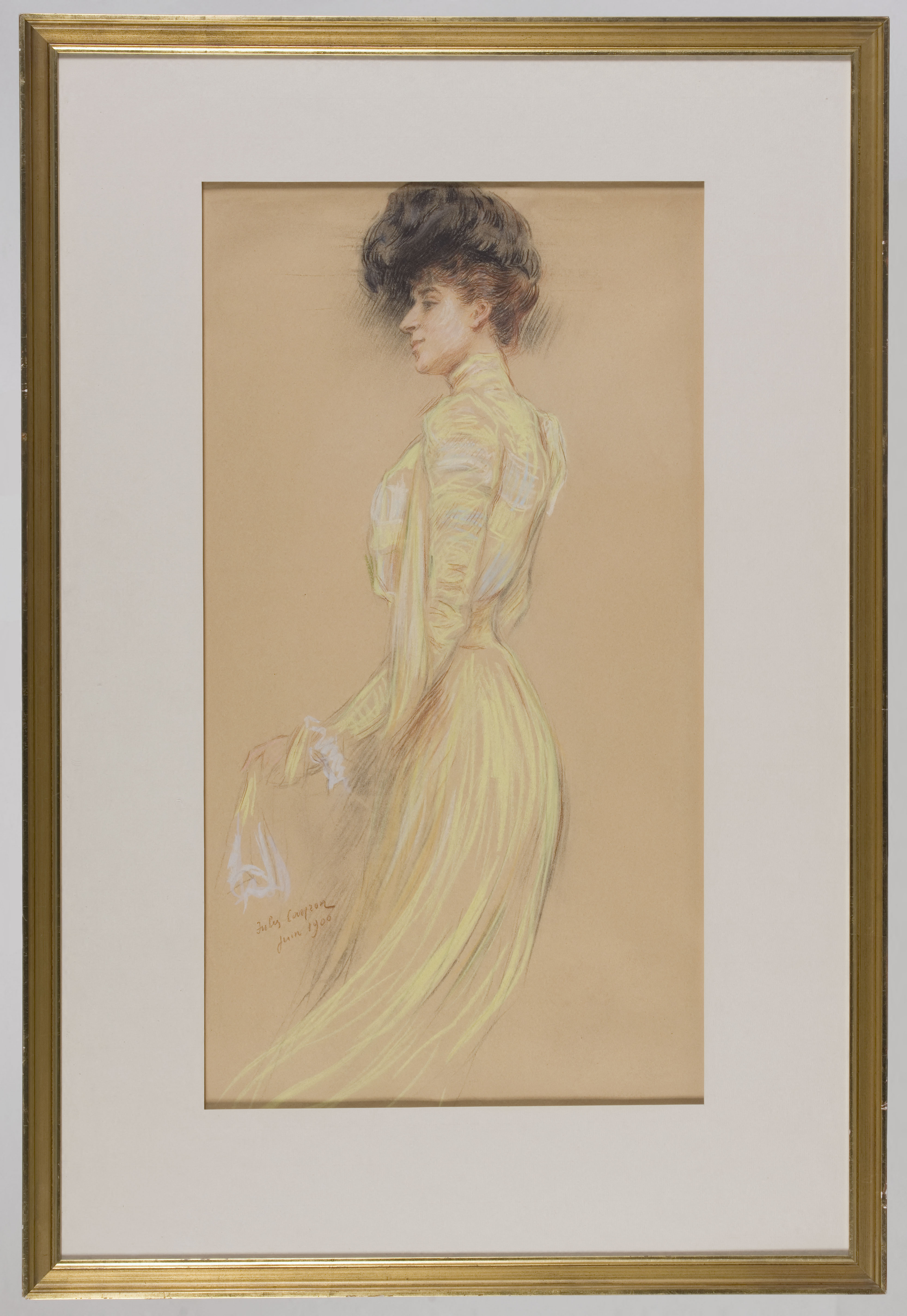 Portrait of the actress Portrait de Berthe Cerny. Held in the Musée Carnavalet, Histoire de Paris